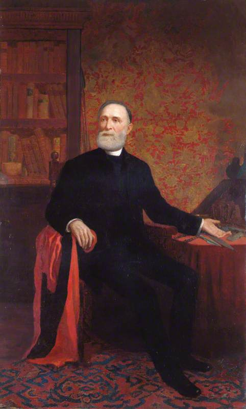 Canon John Grainger (1830–1891), DD, MRIA by Anthony Carey Stannus